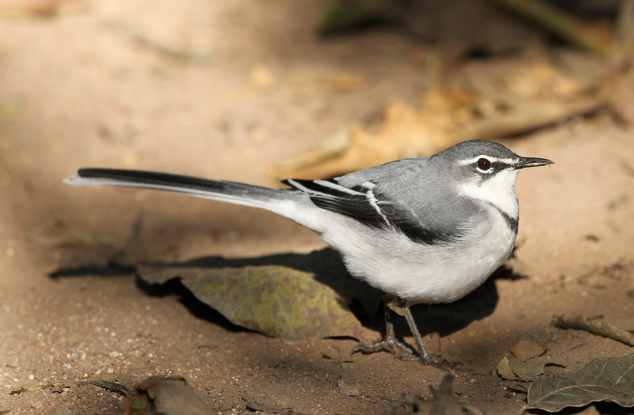 Mountain wagtail (or Long-tailed Wagtail), Motacilla clara at Lekgalameetse Nature Reserve, Limpopo, South Africa